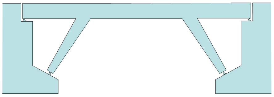 An illustration of a rigid frame bridge